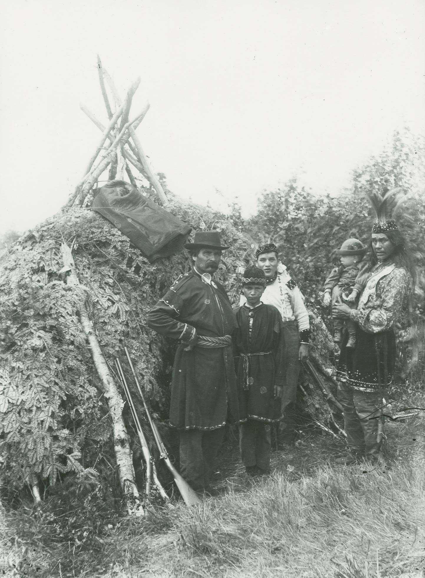 Mi'kmaq group in ceremonial dress of the late nineteenth and early twentieth centuries